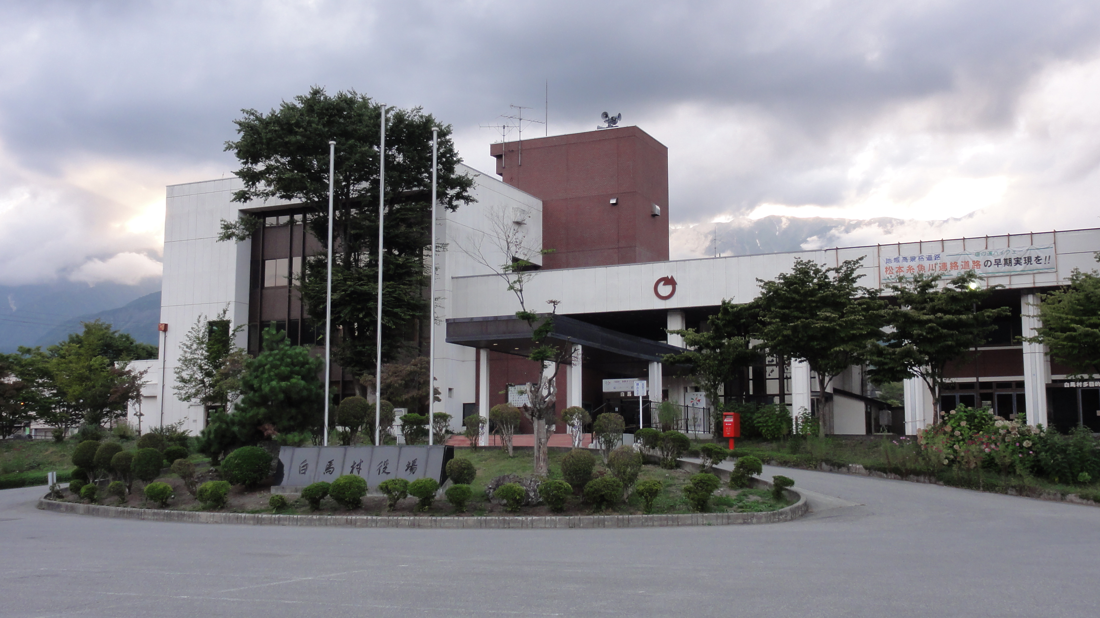 Hakuba village office,Nagano prefecture,Japan